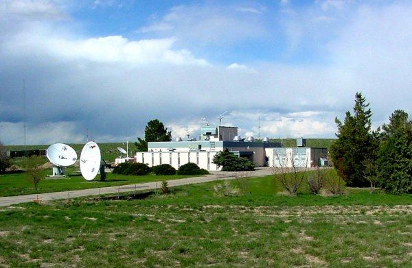 United States National Institute of Standards and Technology (NIST) radio station WWV's transmitter building in Fort Collins, Colorado, USA. This station broadcasts time-of-day information to the Continental United States.